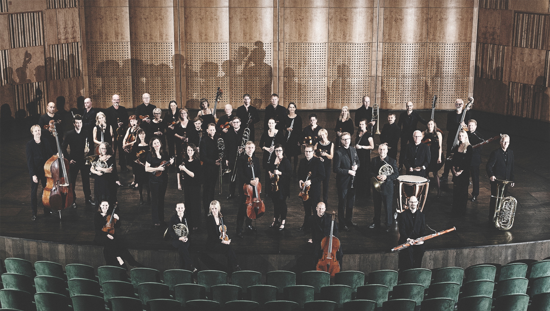 The orchestra on their home stage.